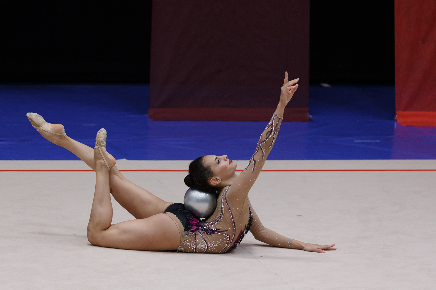 Linoy ashram performing her ball routine at the National Israeli Rythmic Gymnastics Championships 2019.